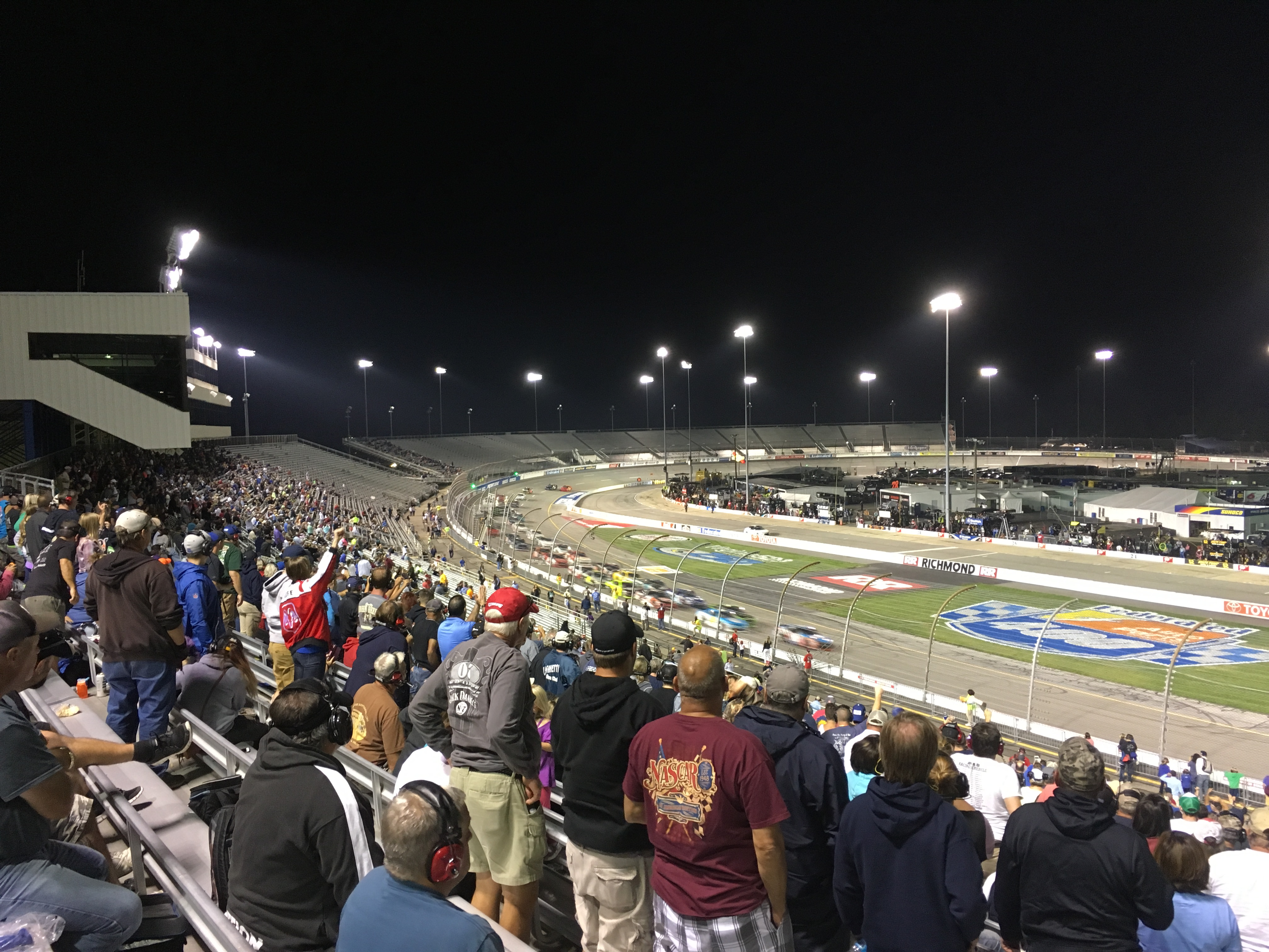 The 2017 Virginia 529 College Savings 250 at Richmond Raceway viewed from the frontstretch, with Kyle Busch (#18) leading Daniel Hemric (#21), Brad Keselowski (#22), and the rest of the field following a restart.